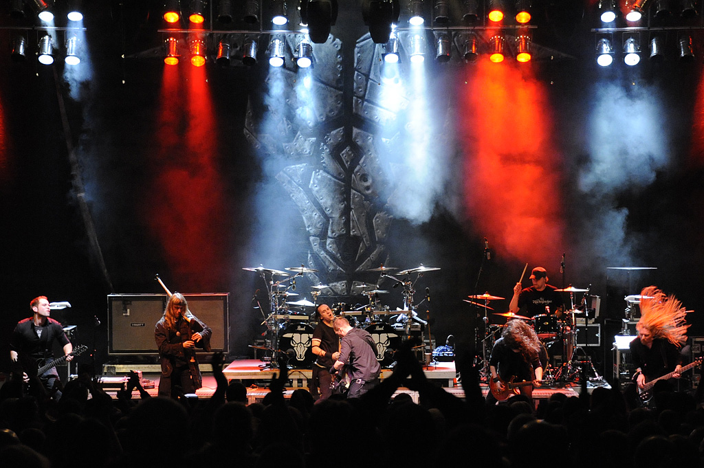 Nachtgeschrei at Amphitheater Hanau